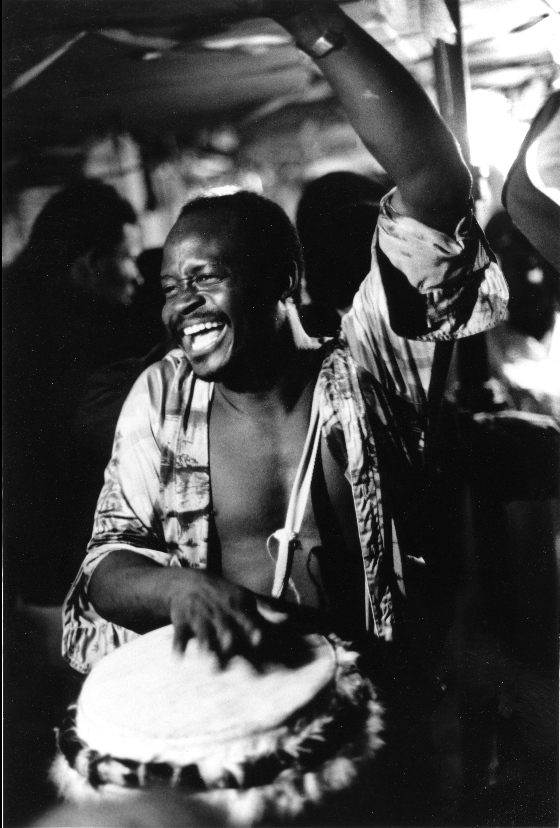 This photograph shows Master Drummer Frisner Augustin playing for a Haitian Vodou dance in a Brooklyn, New York, basement in the early 1980s.